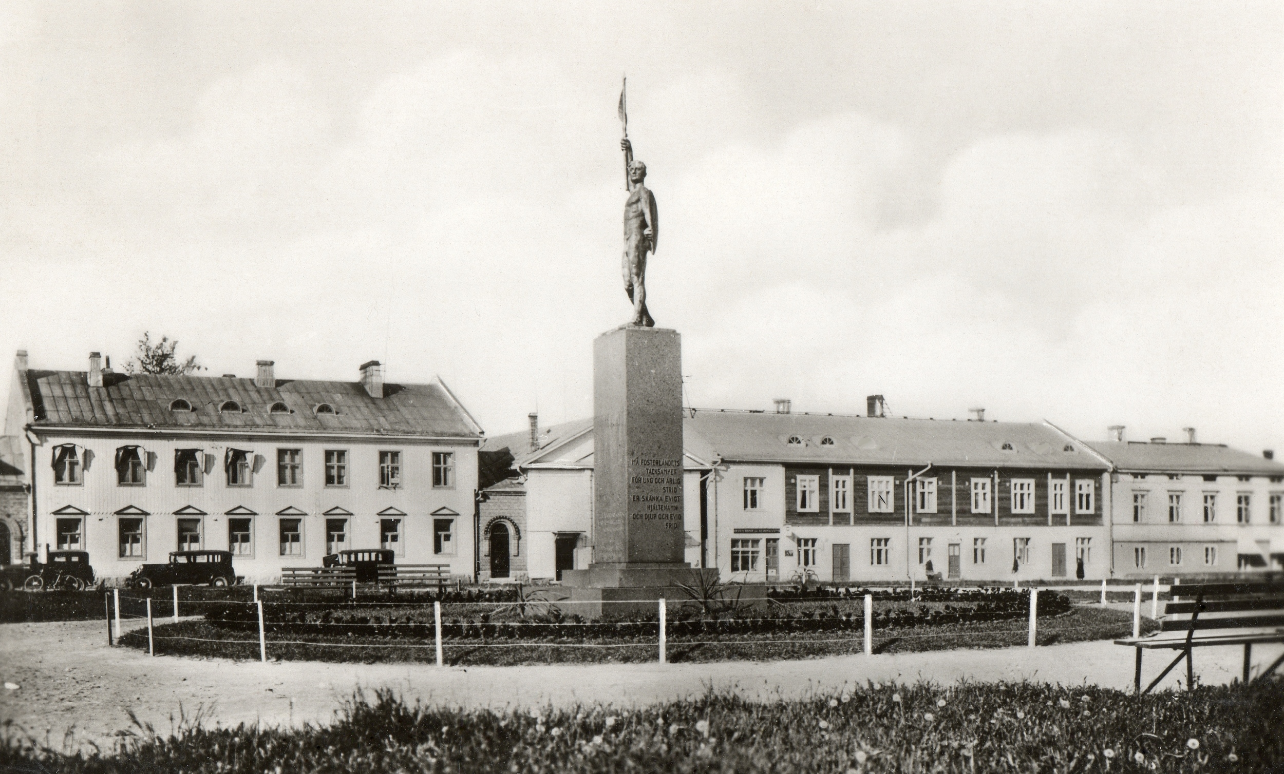 Oulu Statue of Liberty by Into Saxelin 1920.